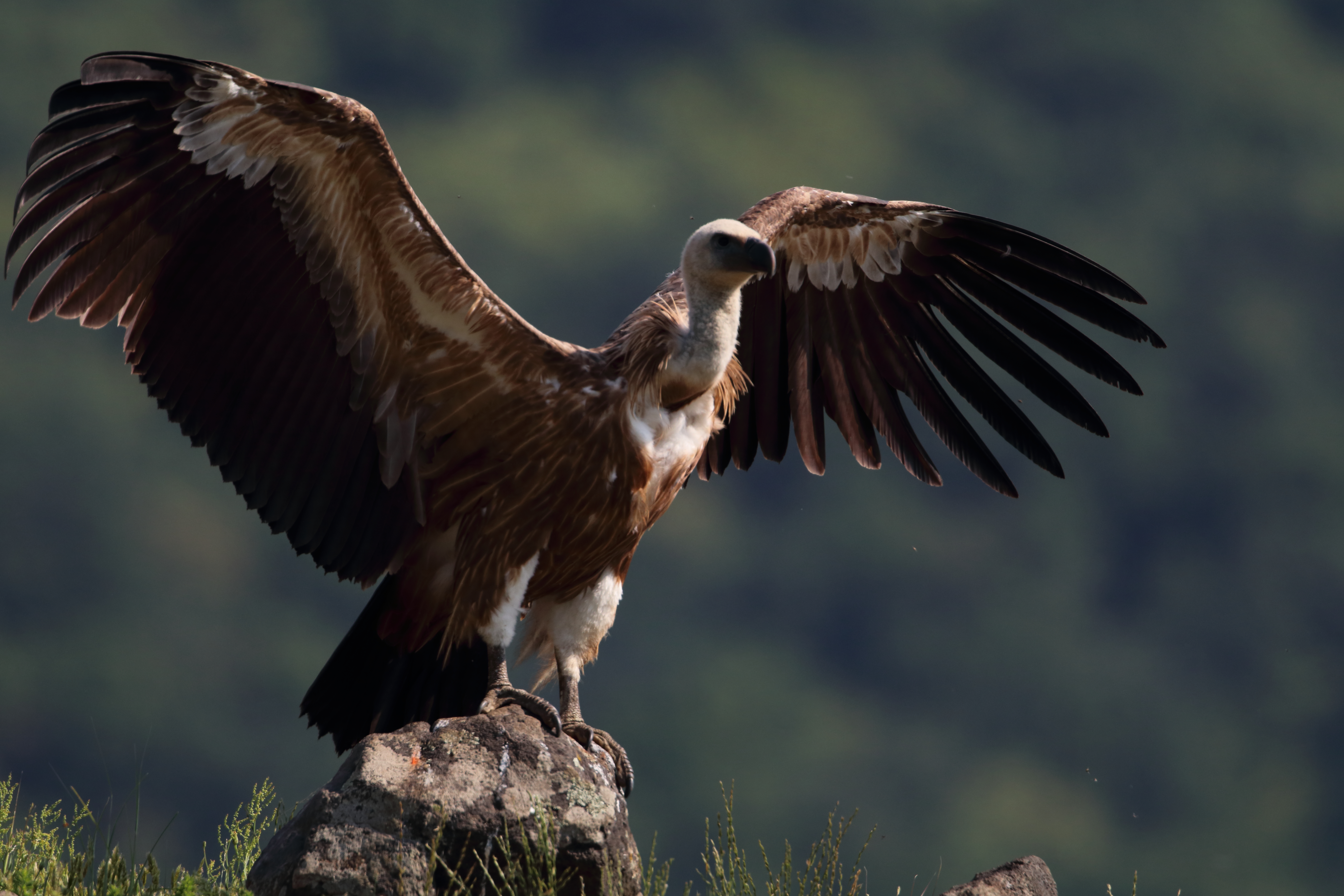 Griffon vulture (Gyps fulvus) in Vulchi Dol in the area of Madzharovo